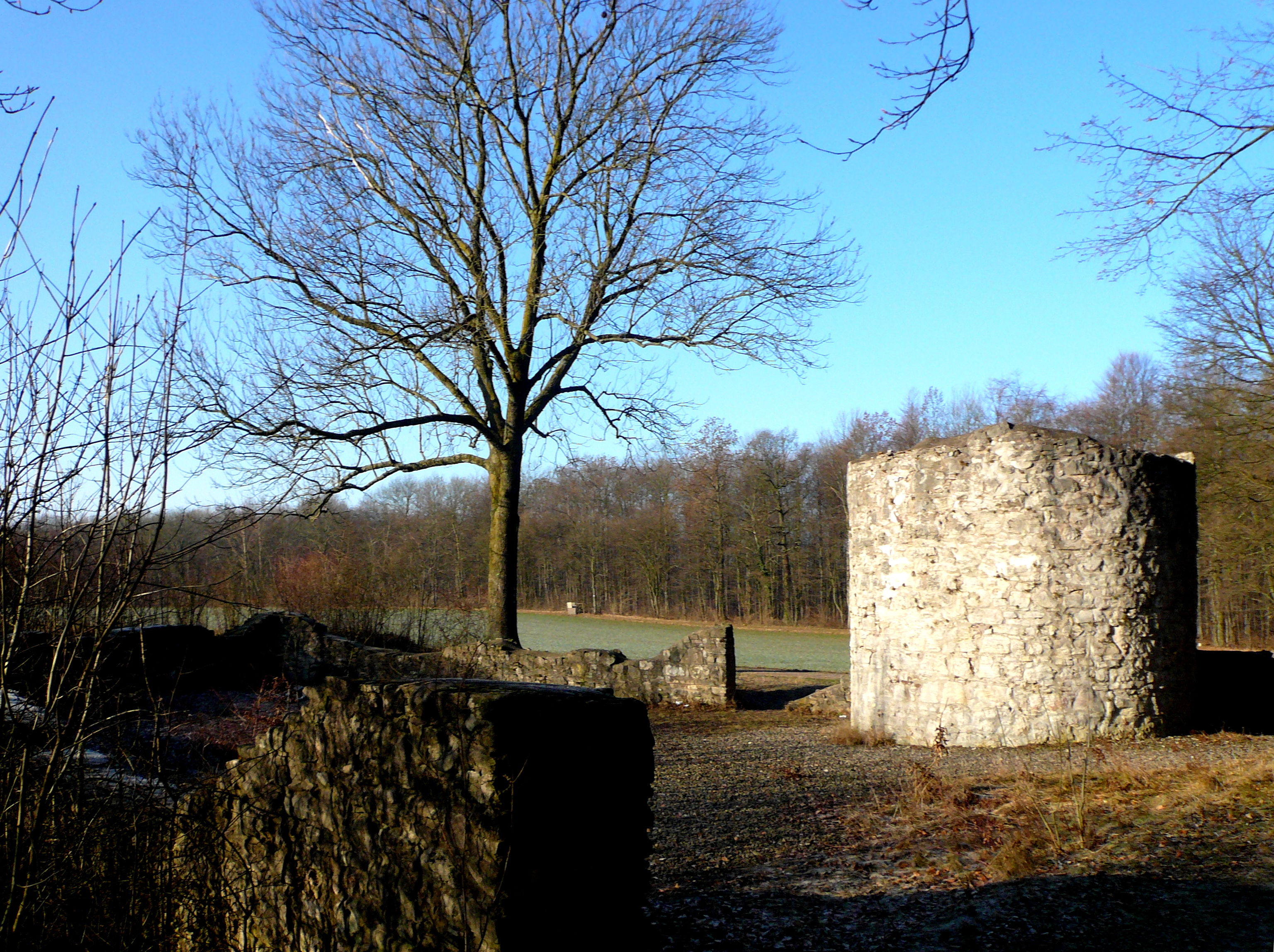 medieval watch tower north-east of Goettingen, Lower Saxony